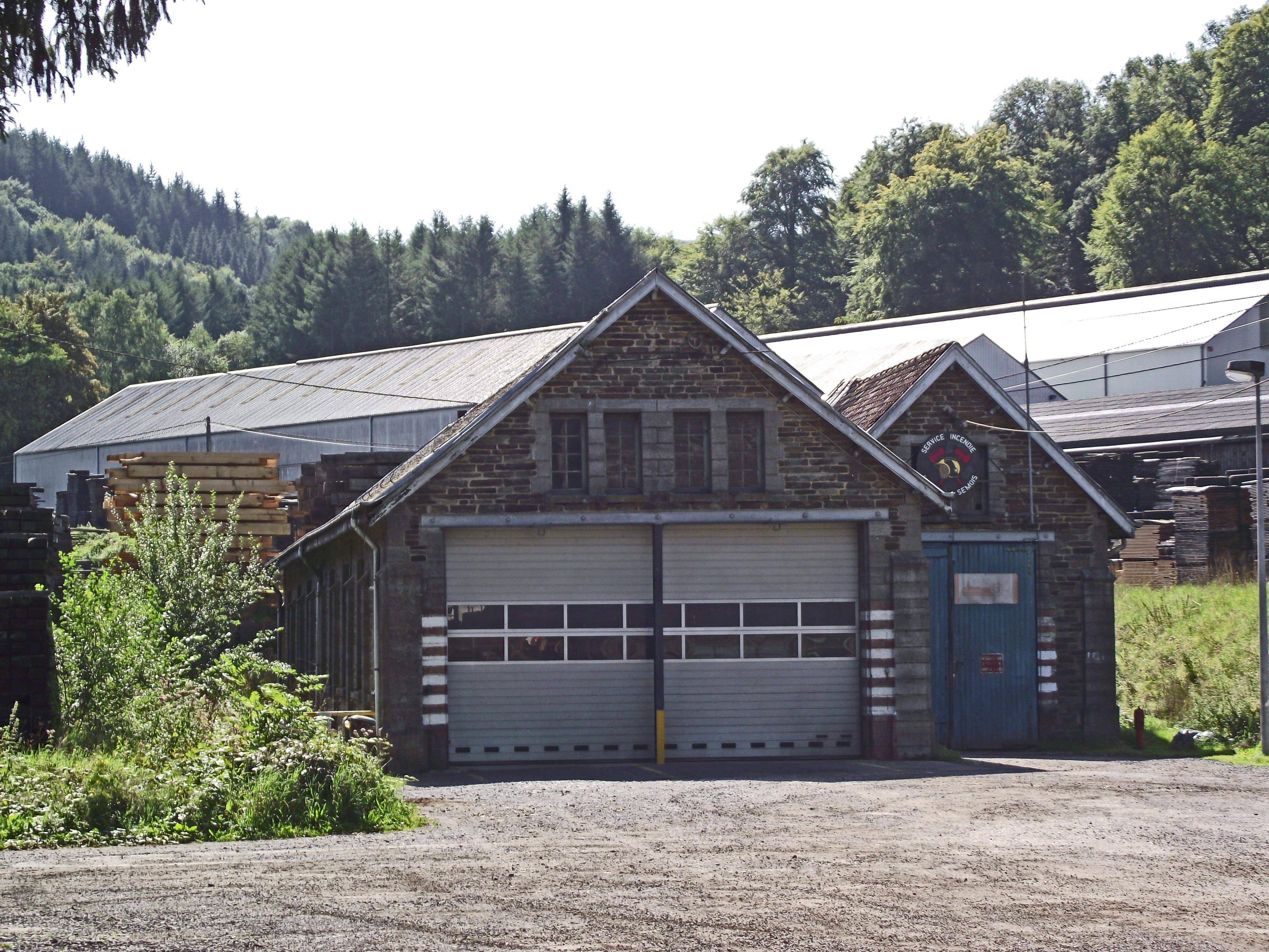 ex-SNCV depot building in Alle, just outside village. It is in use as a firestation.